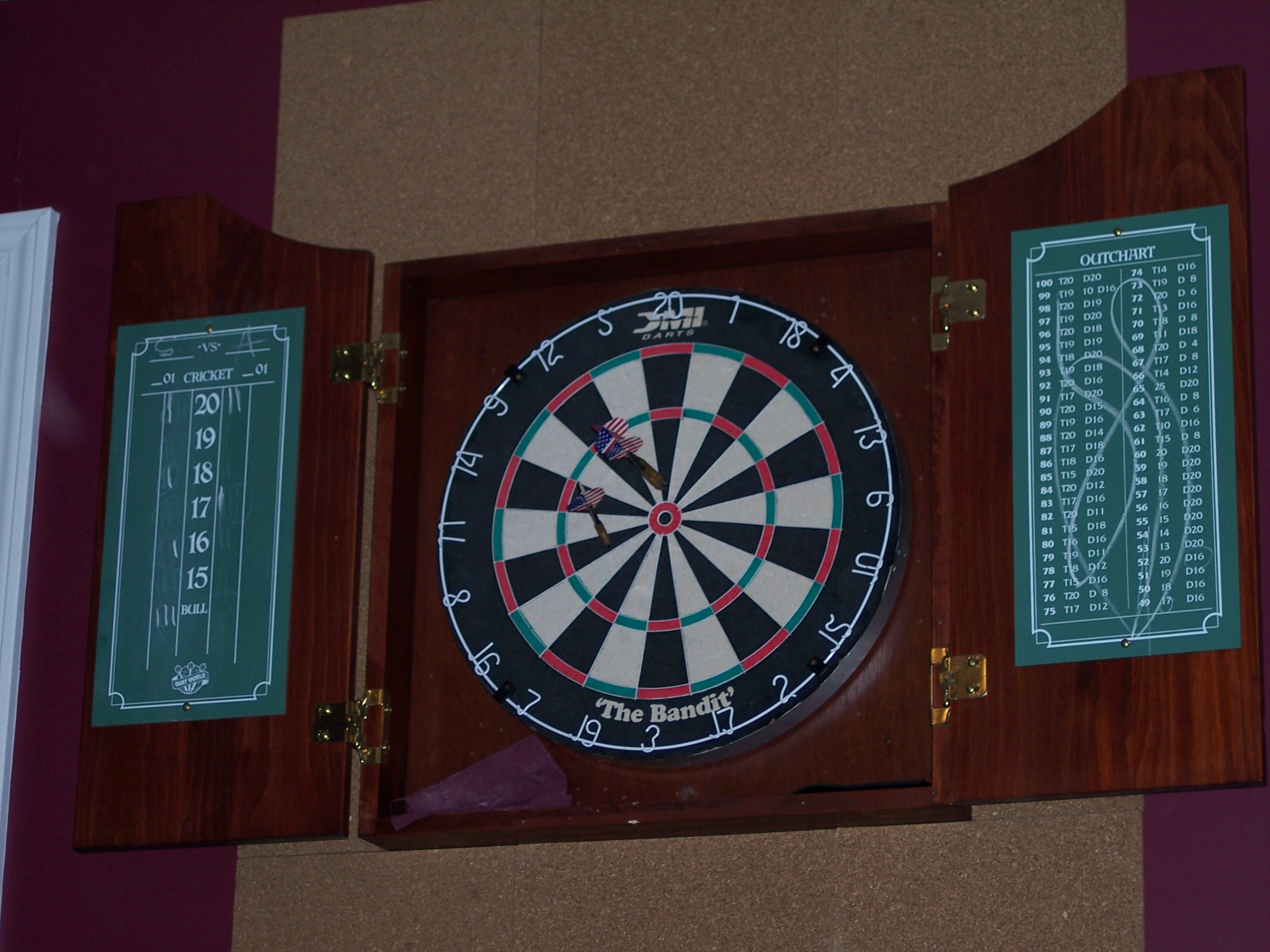 I tried playing darts but I really suck.